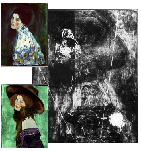 Portrait of a Lady by Klimt (Galleria Ricci Oddi)